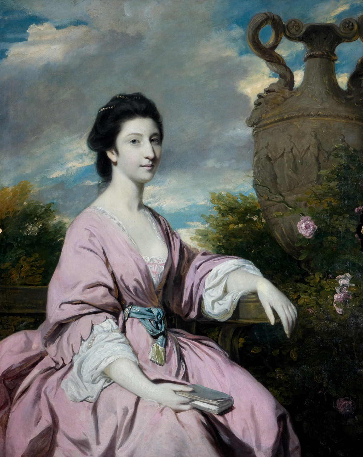 Countess of Clanwilliam (Miss Hawkins-Magill), of Gill Hall, Dromore, by Joshua Reynolds (reproduced in colour) Other information Art UK Bought by Ulster Museum for £16,500, (£2,000 from NACF), in 1970, sold via the Leger Galleries. Provenance: Earls of Darnley; Mary R.Stout, Pennsylvania, USA.